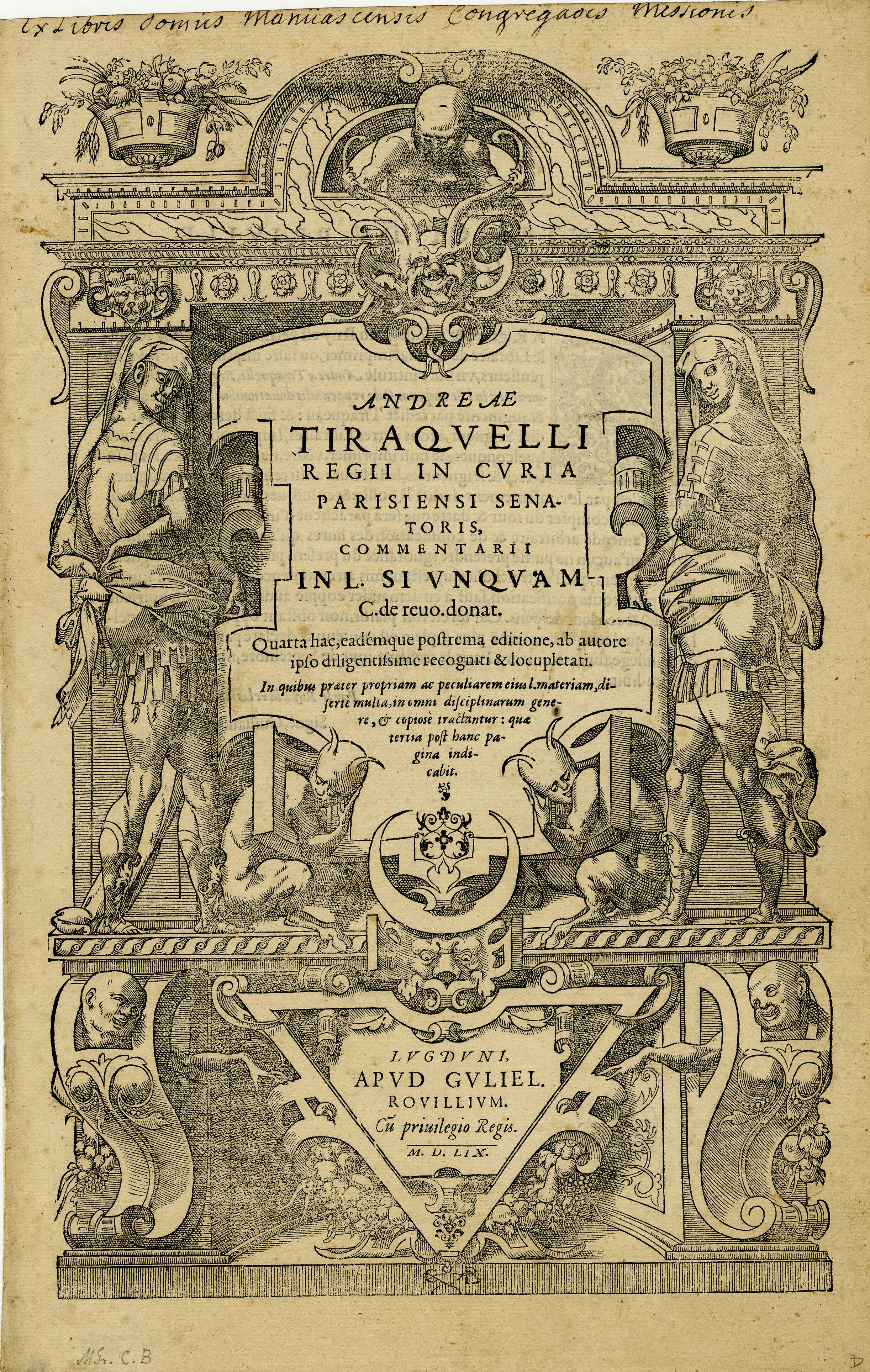 Frontispiece of Regii in curia parisiensi senatoris (1554) by André Tiraqueau (1488–1558), French jurist.